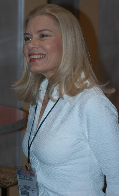 Director Candida Royalle at the 2005 Adult Entertainment Expo